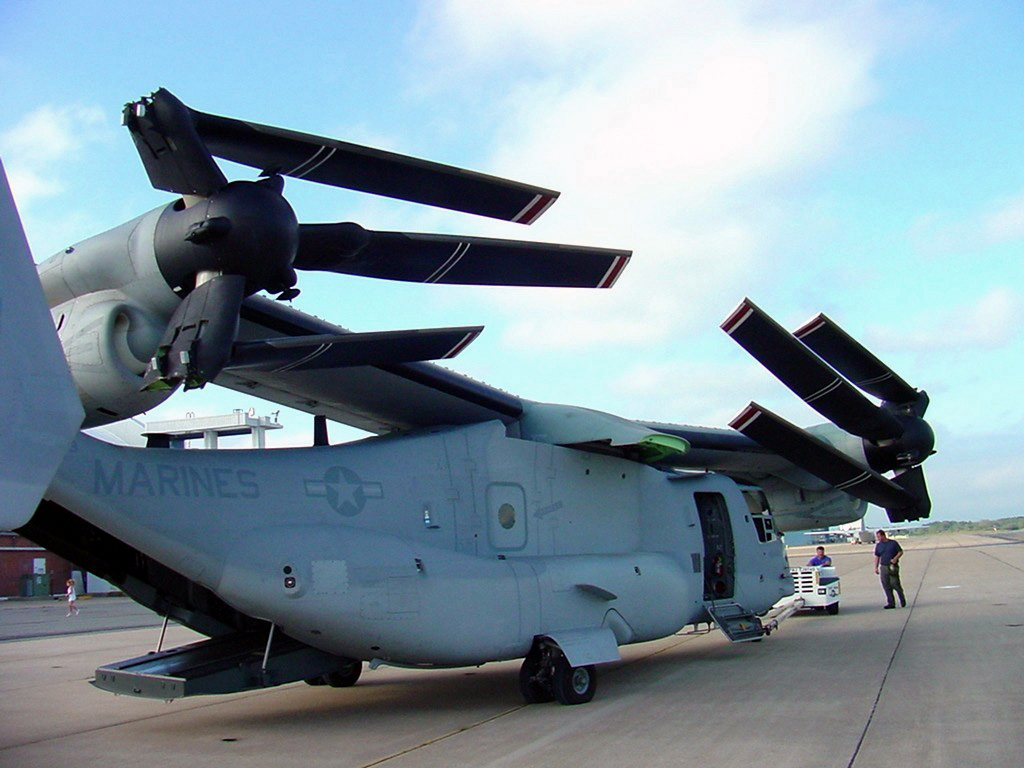 First production Osprey to join the V-22 flight test program since resumption of flight evaluations in 2002.